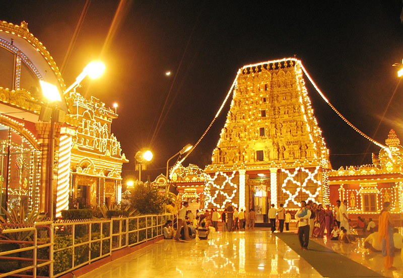 Temple entrance on the eve of Dasara, also called Dasehra, Navaratri Mangalore India